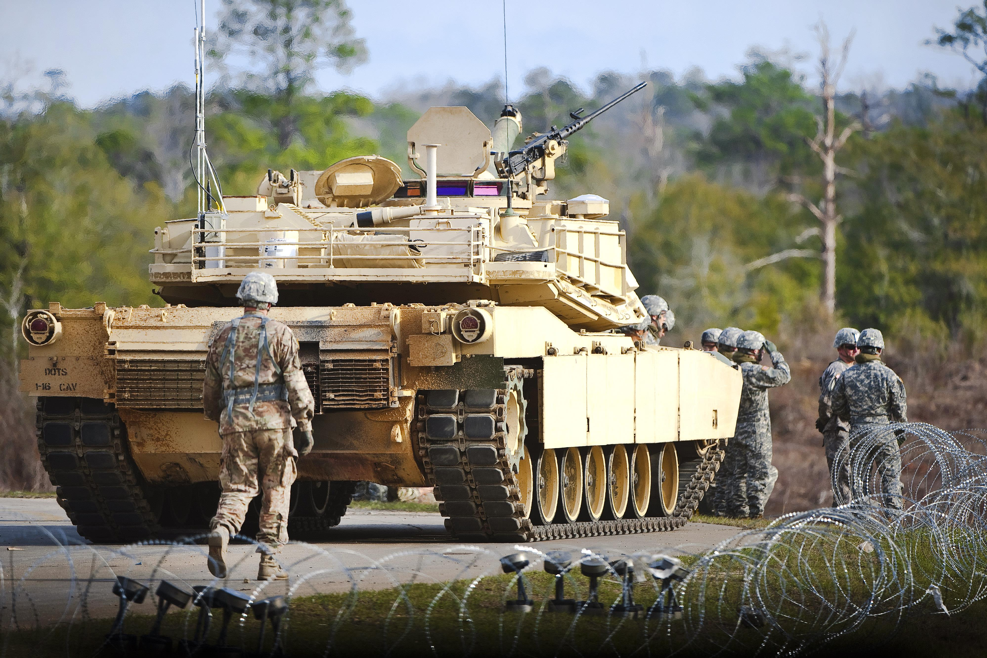 Army armor basic officers prepare an M1A2 Abrams battle tank to conduct tank live-fire training at Fort Benning, Ga.